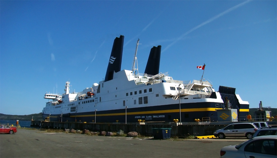 MV Joseph and Clara Smallwood ferry, Marine Atlantic, departing from Argentia (Newfoundland and Labrador) to North Sydney (Nova Scotia), Canada.